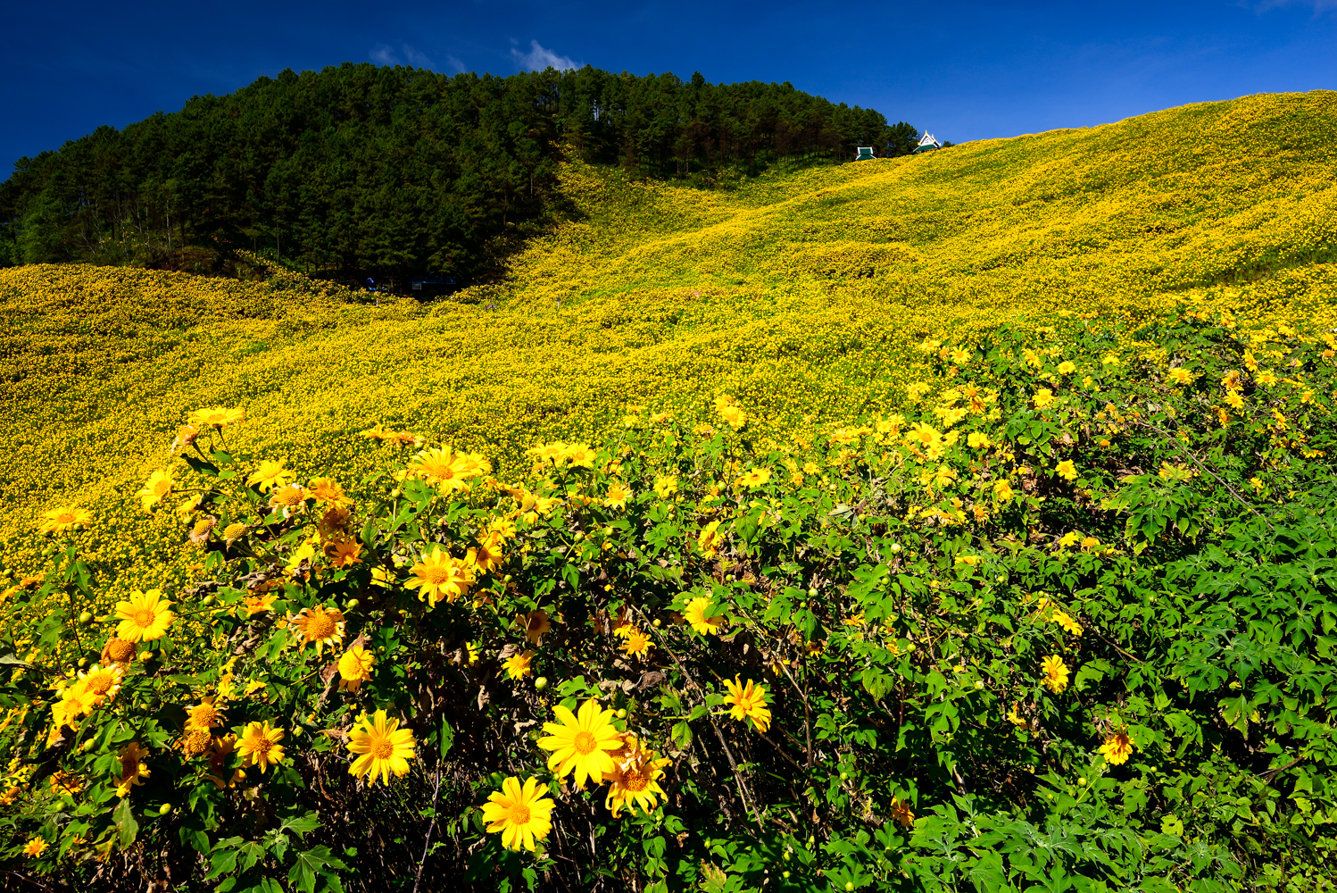 Doi Mae U-Kor, Khun Yuam district, Mae Hong Son province